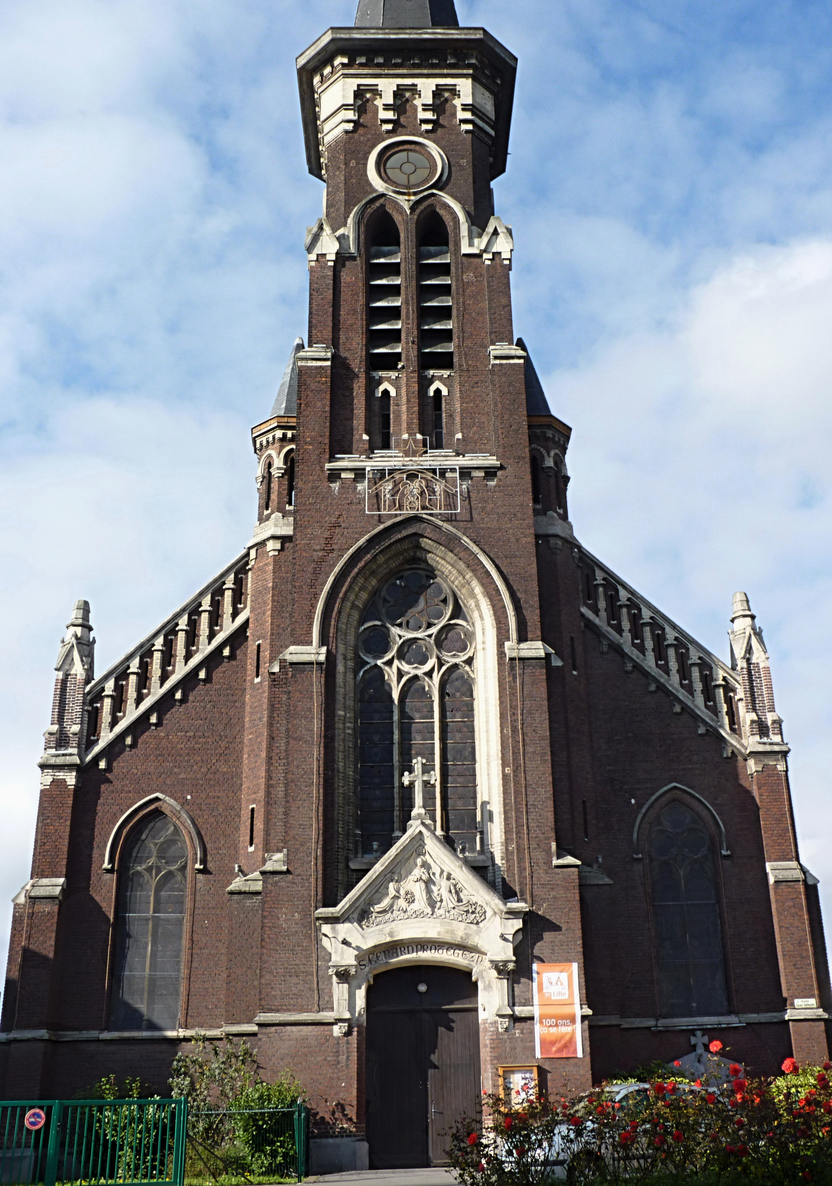 Church Saint-Gérard in Wattrelos (Nord), France.